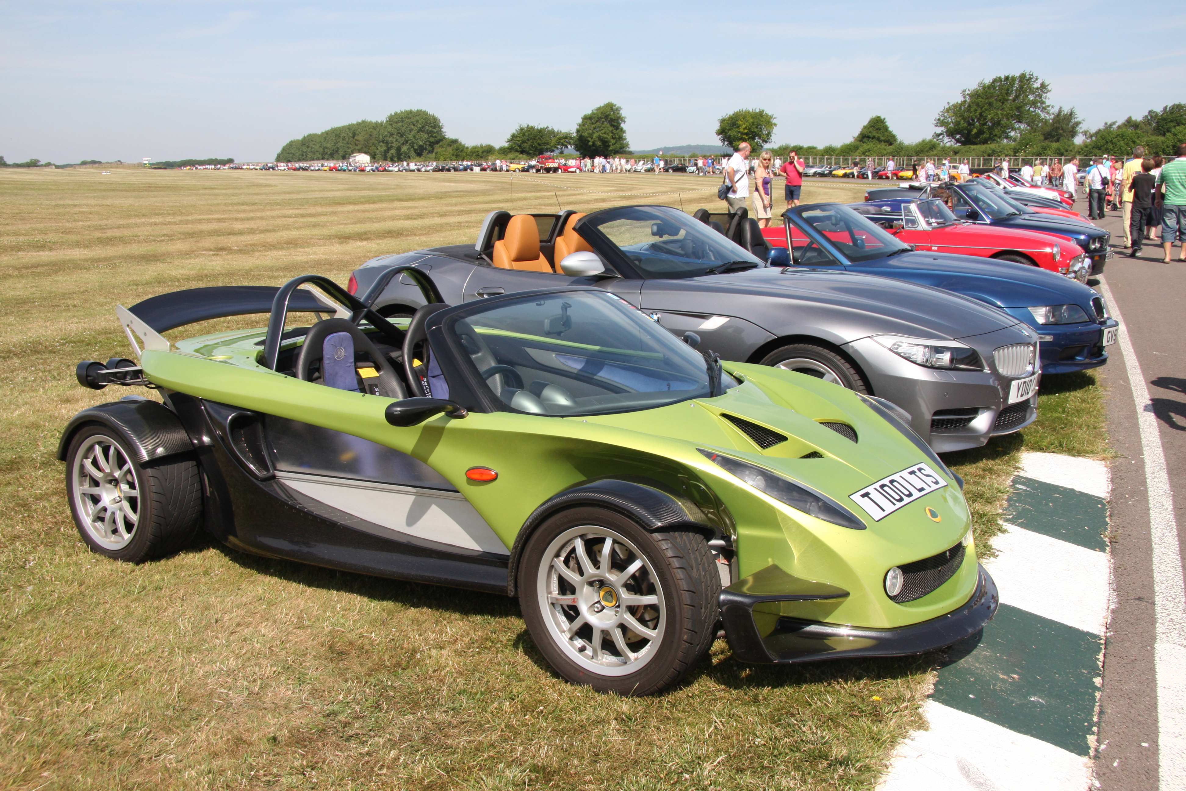 By far, the most cars I have ever seen at a Goodwood Breakfast Club. This is only some of them stretching around the circuit.